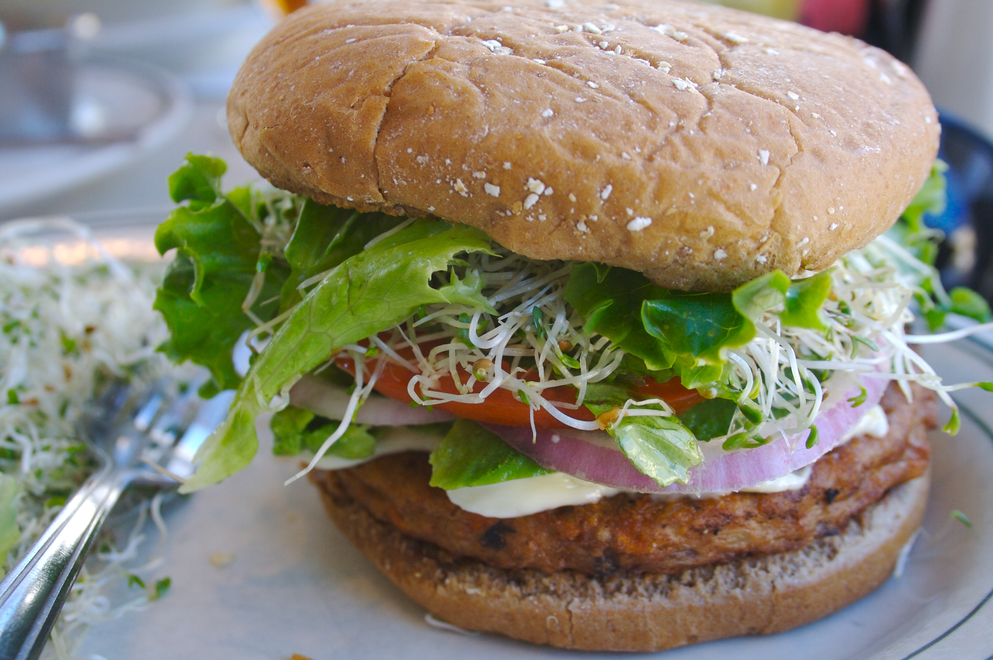 Mel's Diner. The BEST veggie burger I've ever eaten. Vegetarian goodness, baby.